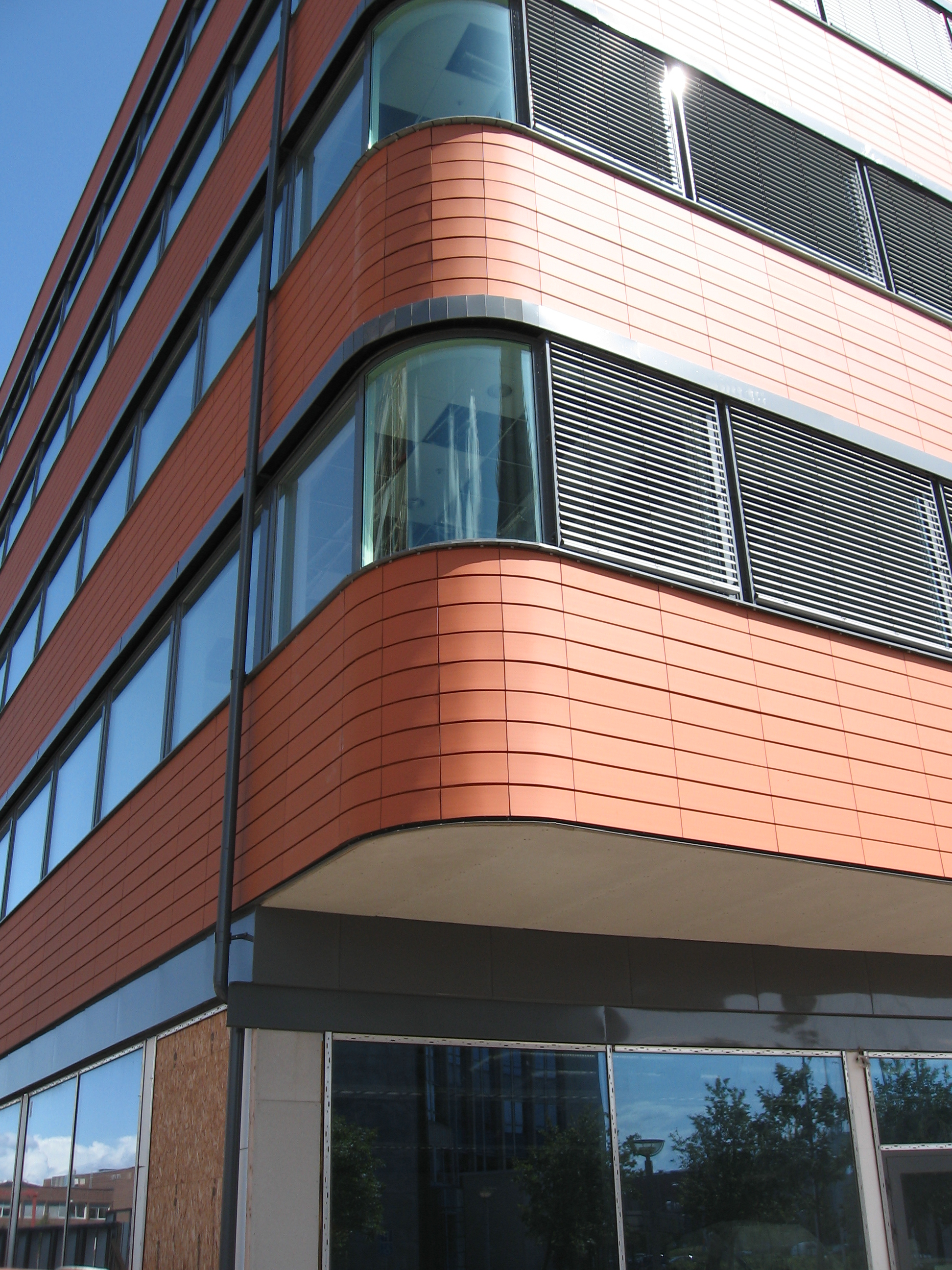 Skrovet 5 Malmö